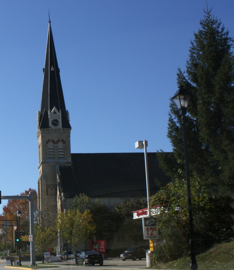 The Saint Bernard's Church Complex in Watertown, Wisconsin, listed on the National Register of Historic Places, along Wisconsin Highway 26.